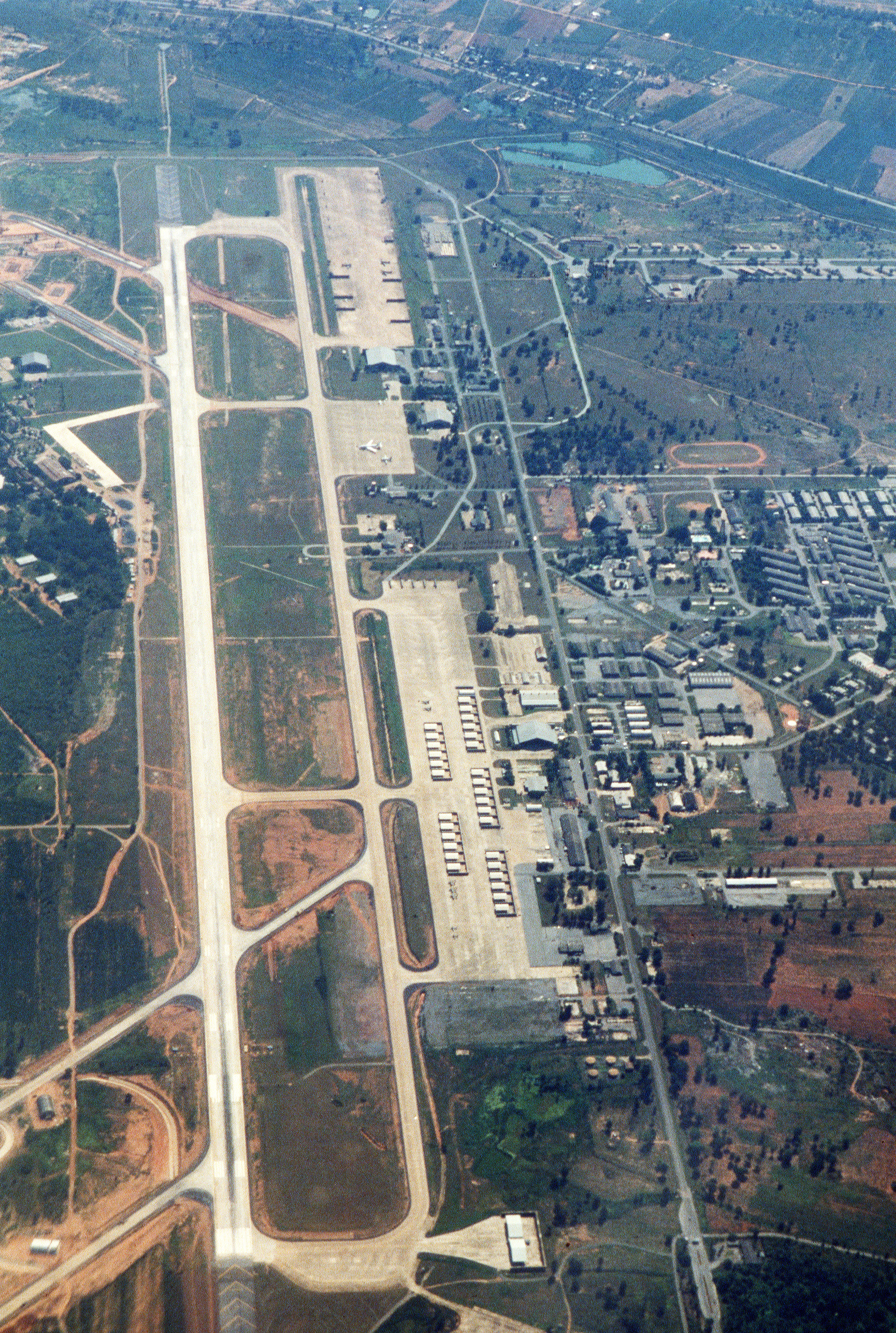 Aerial view of Korat Royal Thai Air Base, Thailand, during exercise "Cobra Gold '87".